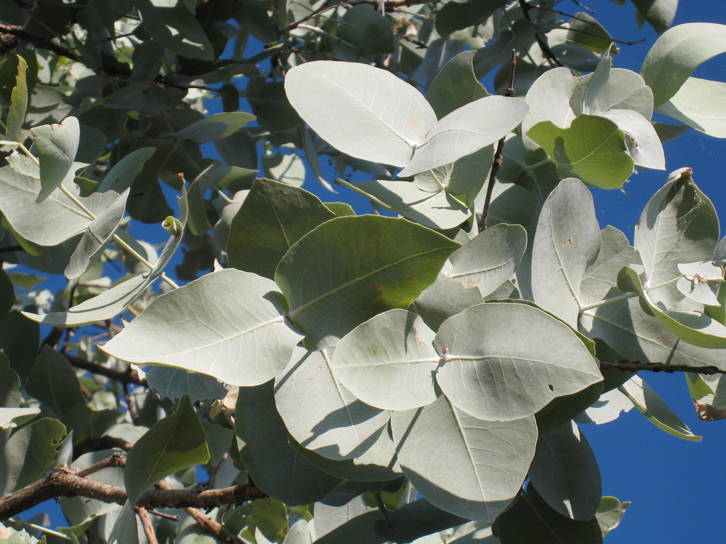 Eucalyptus pruinosa, Bradshaw Field Training Area, the Kimberley, NT, Australia